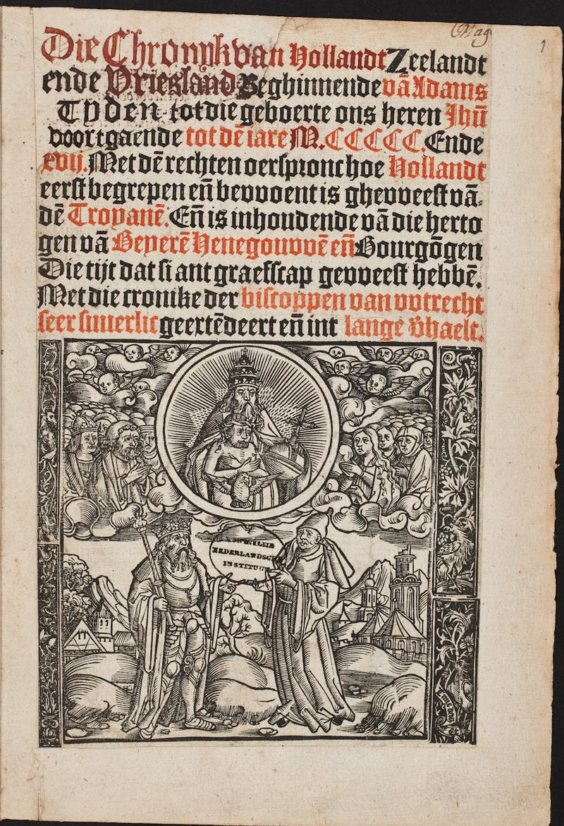 Title page of the Cronycke van Hollandt Zeelandt ende Vrieslant (also known as Divisiekroniek), written by humanist Cornelius Aurelius and published in Leiden by Jan Seversz in 1517. Issue preserved at the Koninklijke Bibliotheek in The Hague.